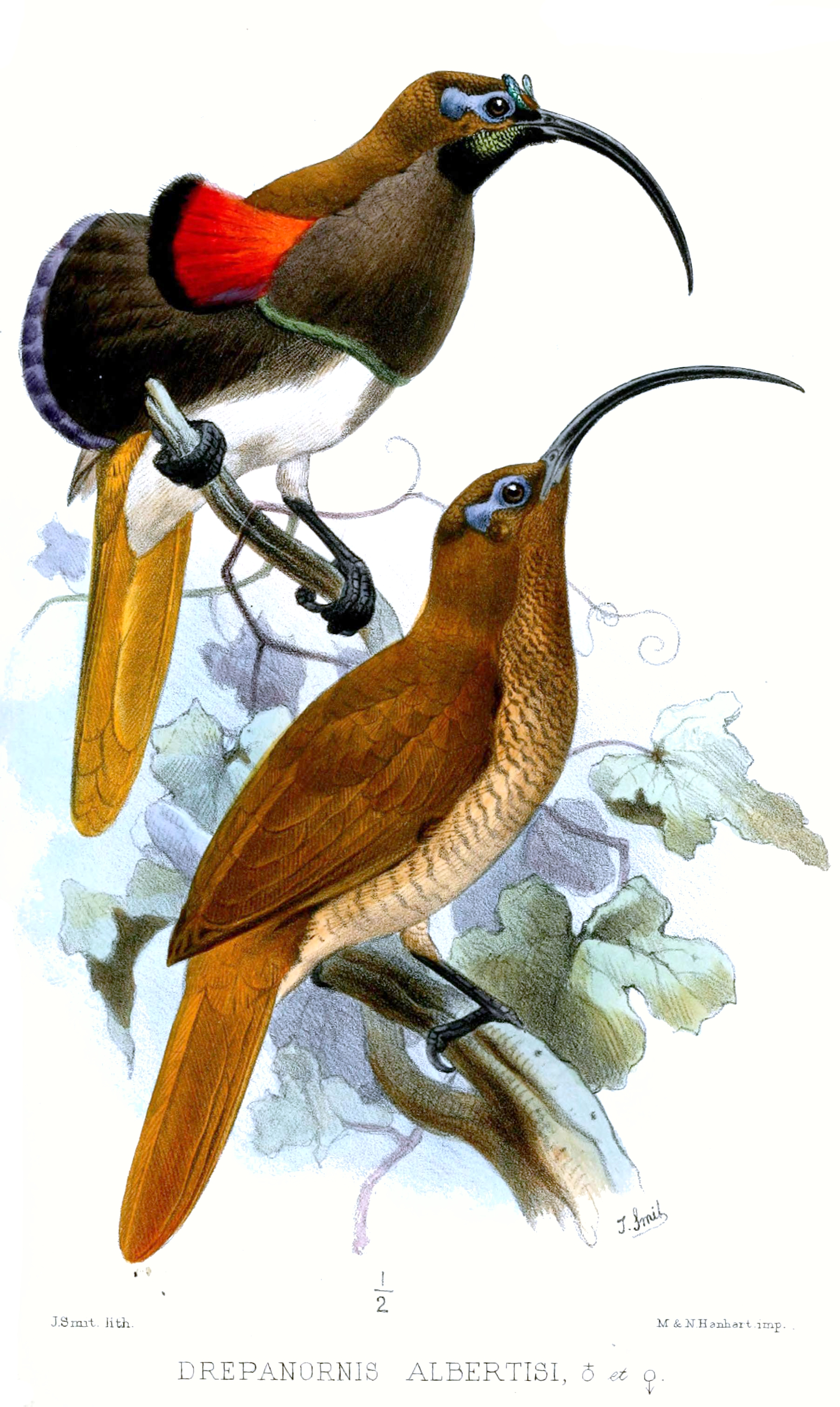 Drepanornis albertisi